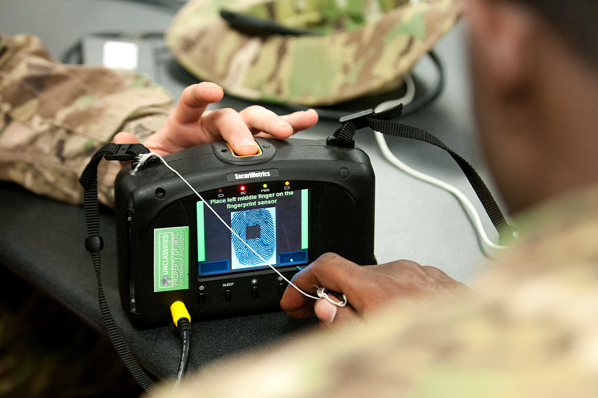 A paratrooper scans the fingerprint of another using a Handheld Interagency Identity Detection Equipment, or HIIDE, system during training at the Joint Readiness Training Center on Fort Polk, La., Jan. 10, 2012. The device measures personal biometric parameters that allow friendly forces to identify persons of interest at a later date. 中文（中国大陆）: 一名美军士兵在某训练中心将左手中指按在指纹仪上，以采集指纹信息，并且会凭指纹信息自动识别参与签到活动的每一名士兵。